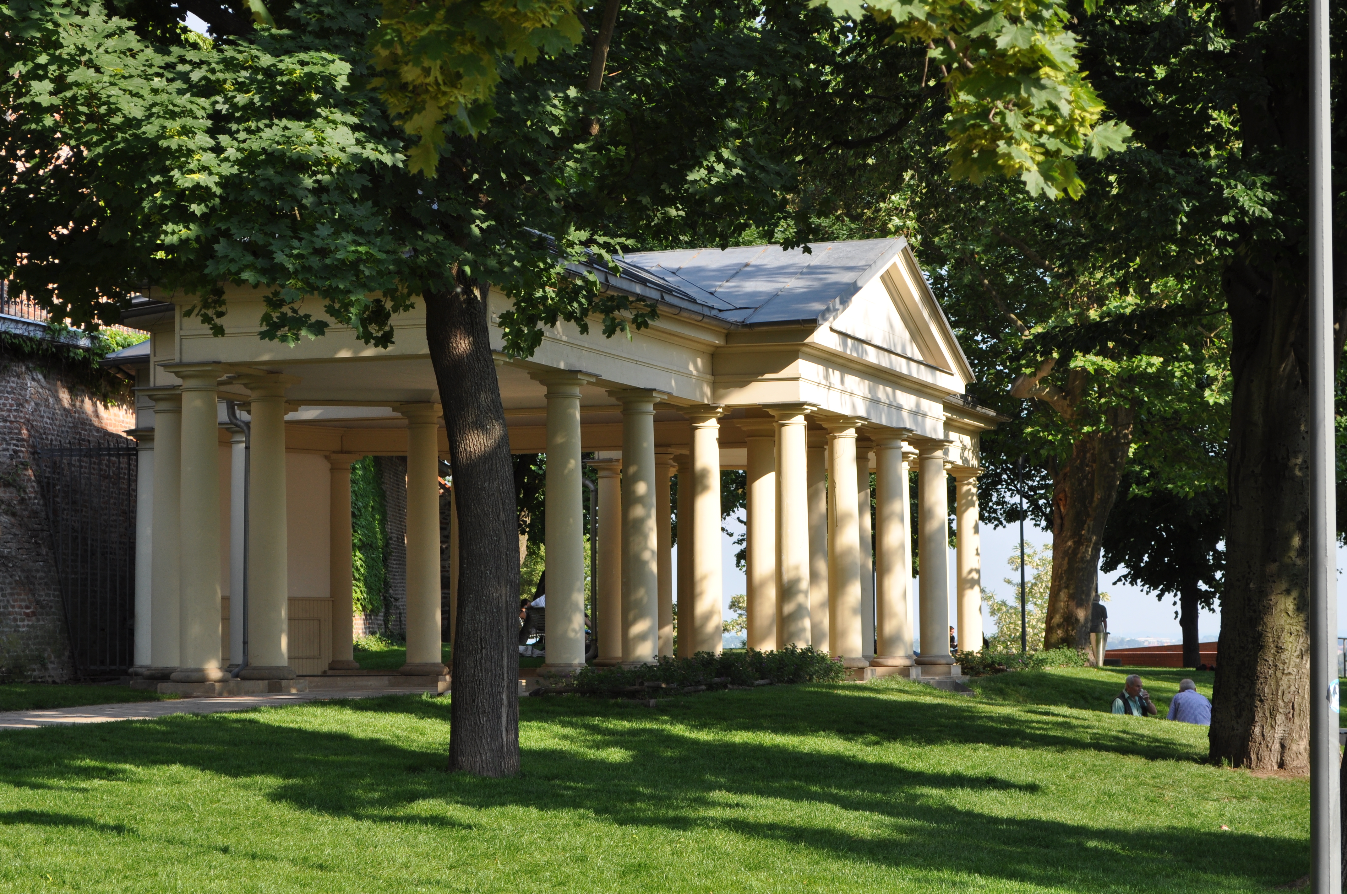 Brno - Denis gardens